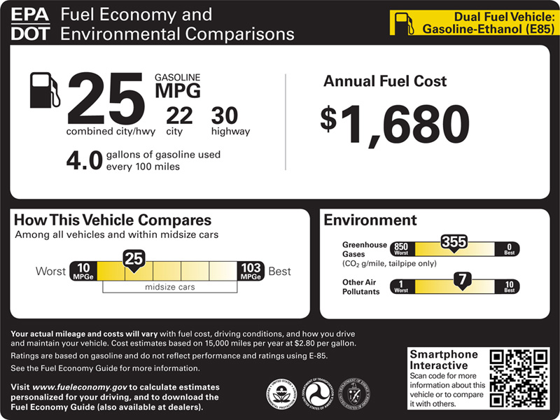 One of two CAFE label designs being proposed the United States Environmental Protection Agency for all new car and light-duty trucks sold in the United States. The new label will be required for vehicles with 2012 and later model years.